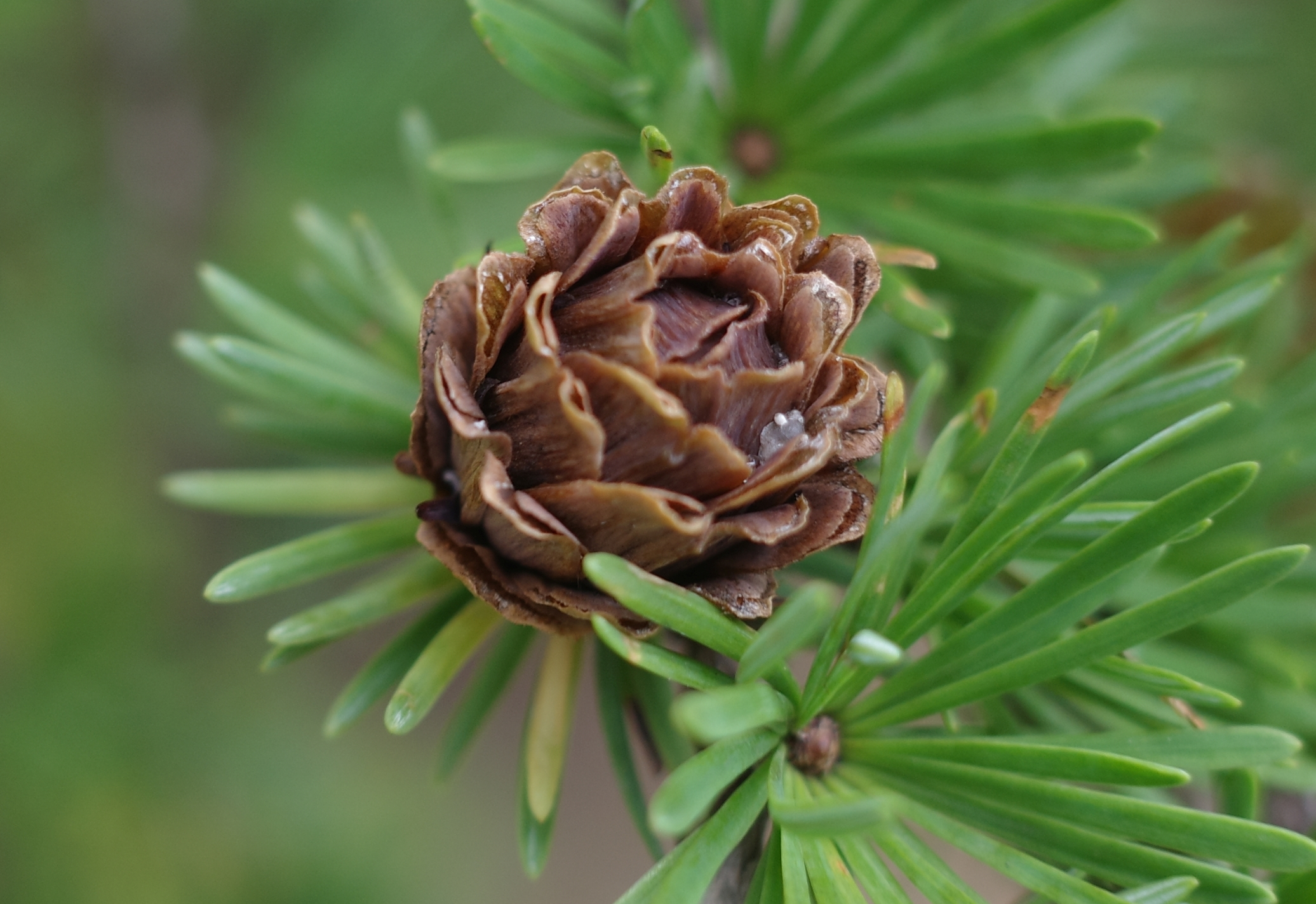 Tomizawa Site Museum. Taihaku-ku, Senda, Miyagi prfecture, Japan.